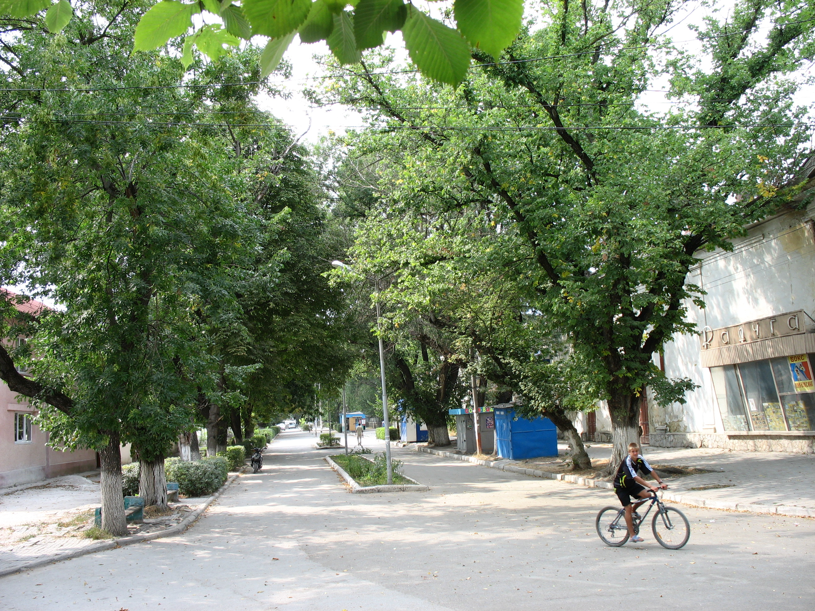 Lunacharskiy street in Belogorsk